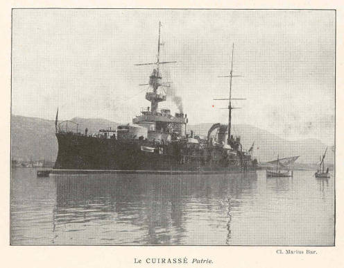 French battleship Patrie